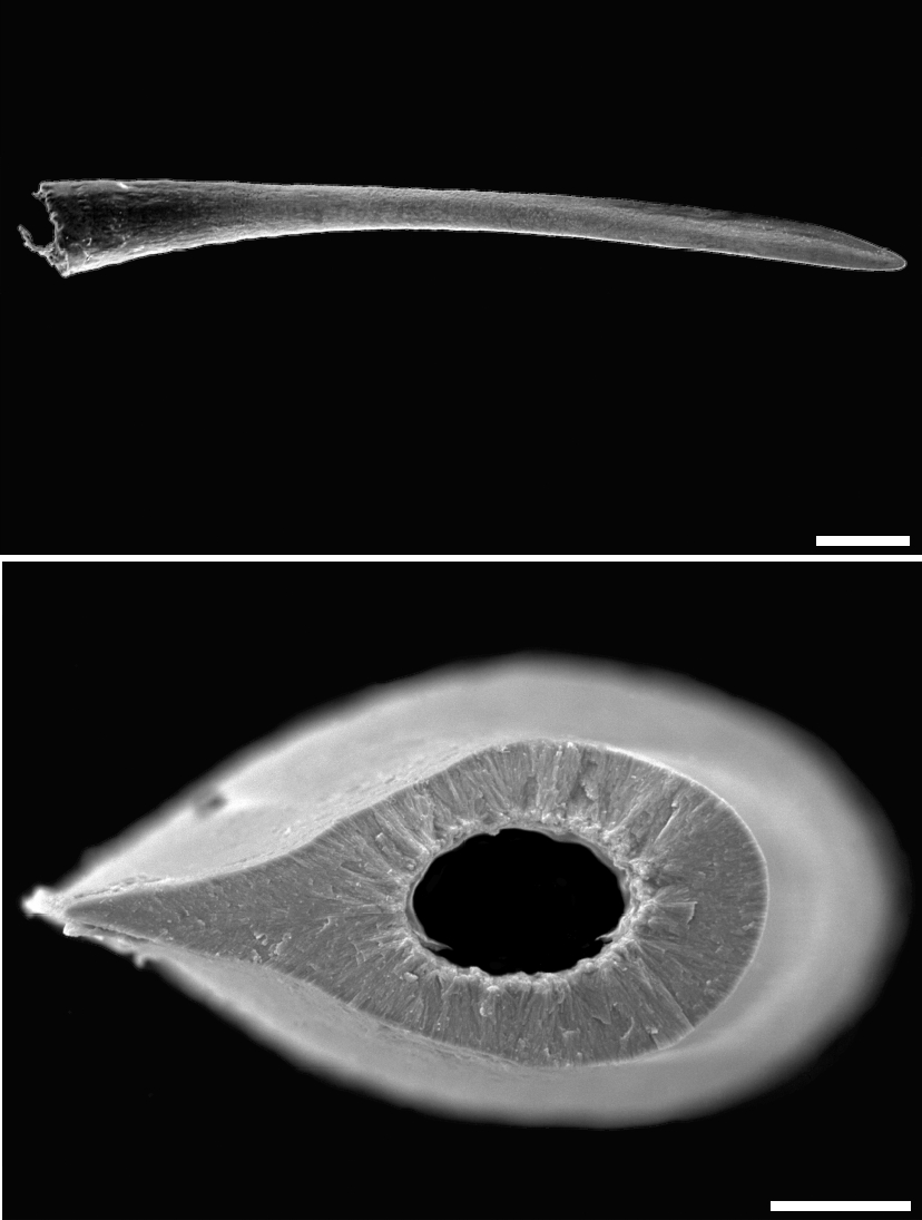 Scanning electron microscopic (SEM) images love-dart of Humboldtiana nuevoleonis. Upper image is love dart from side view while the measure is 500 μm (0.5 mm). Lower image is cross-section while the measure is 50 μm.